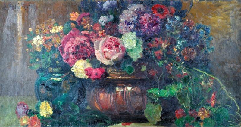 Józef Męcina-Krzesz: Flowers in a vase